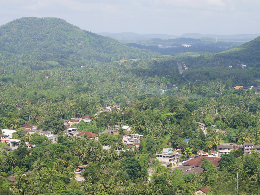 Ingiriya Town View from Mountain Top